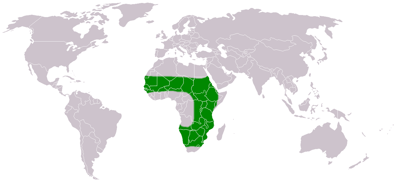 The distribution area of the Red-billed Quelea.